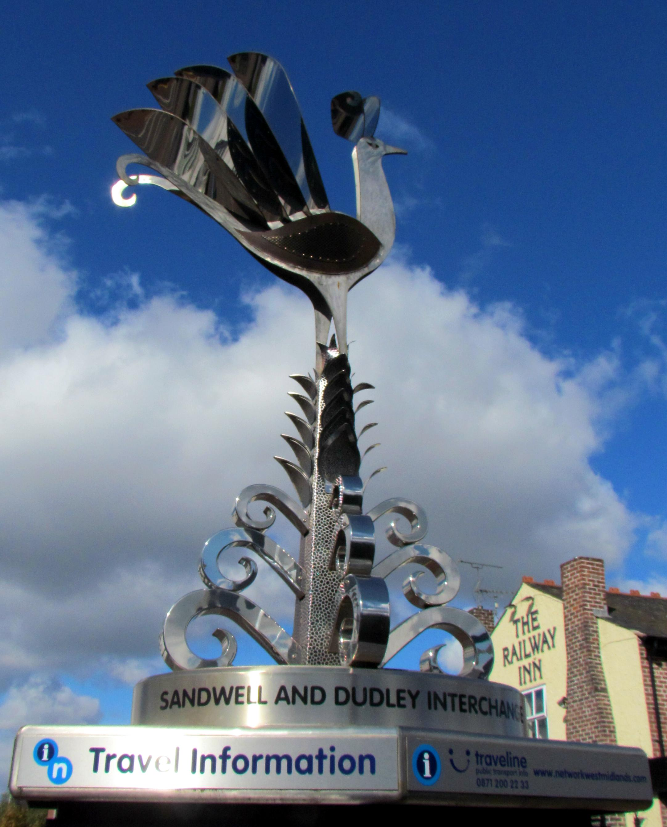 The Peacock Sandwell and Dudley. Outside Sandwell & Dudley Train Station